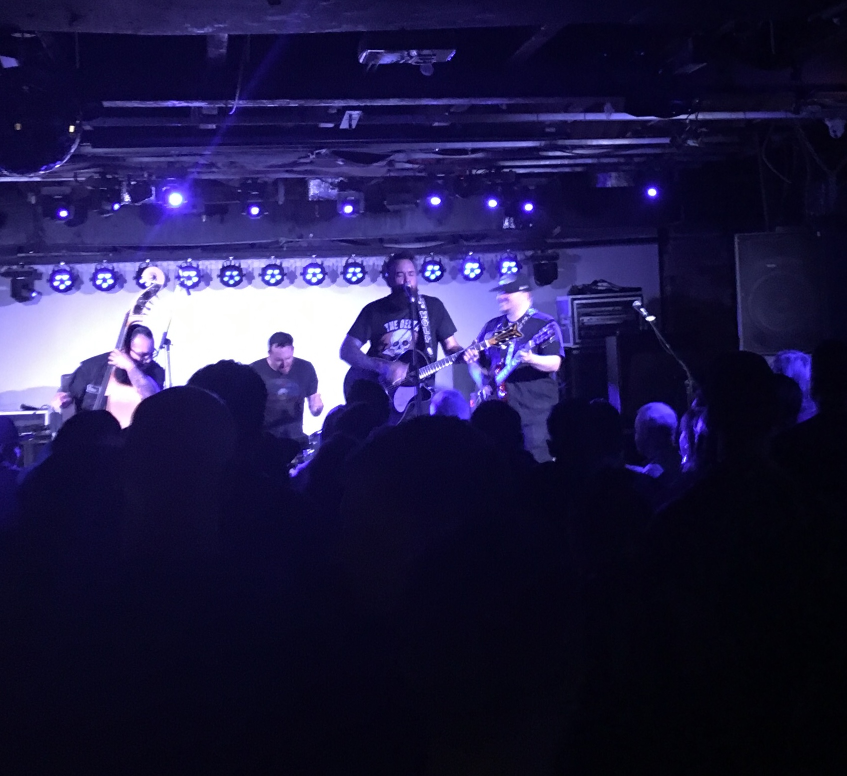 The Delta Bombers at Dickens in Calgary, AB on June 19, 2019